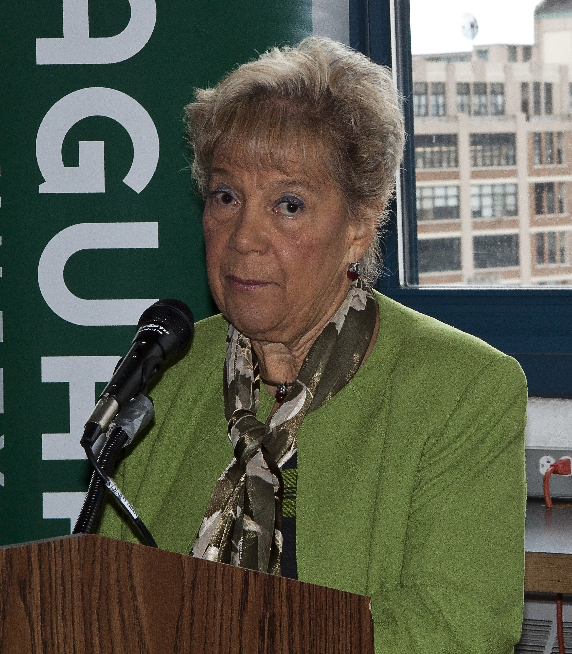 Queens Borough President Helen Marshall.